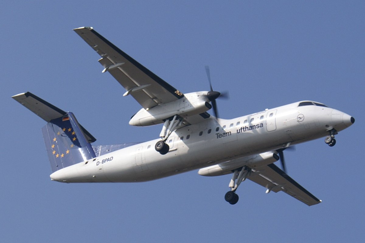 Augsburg Airways De Havilland Canada DHC-8-311Q Dash 8 D-BPAD